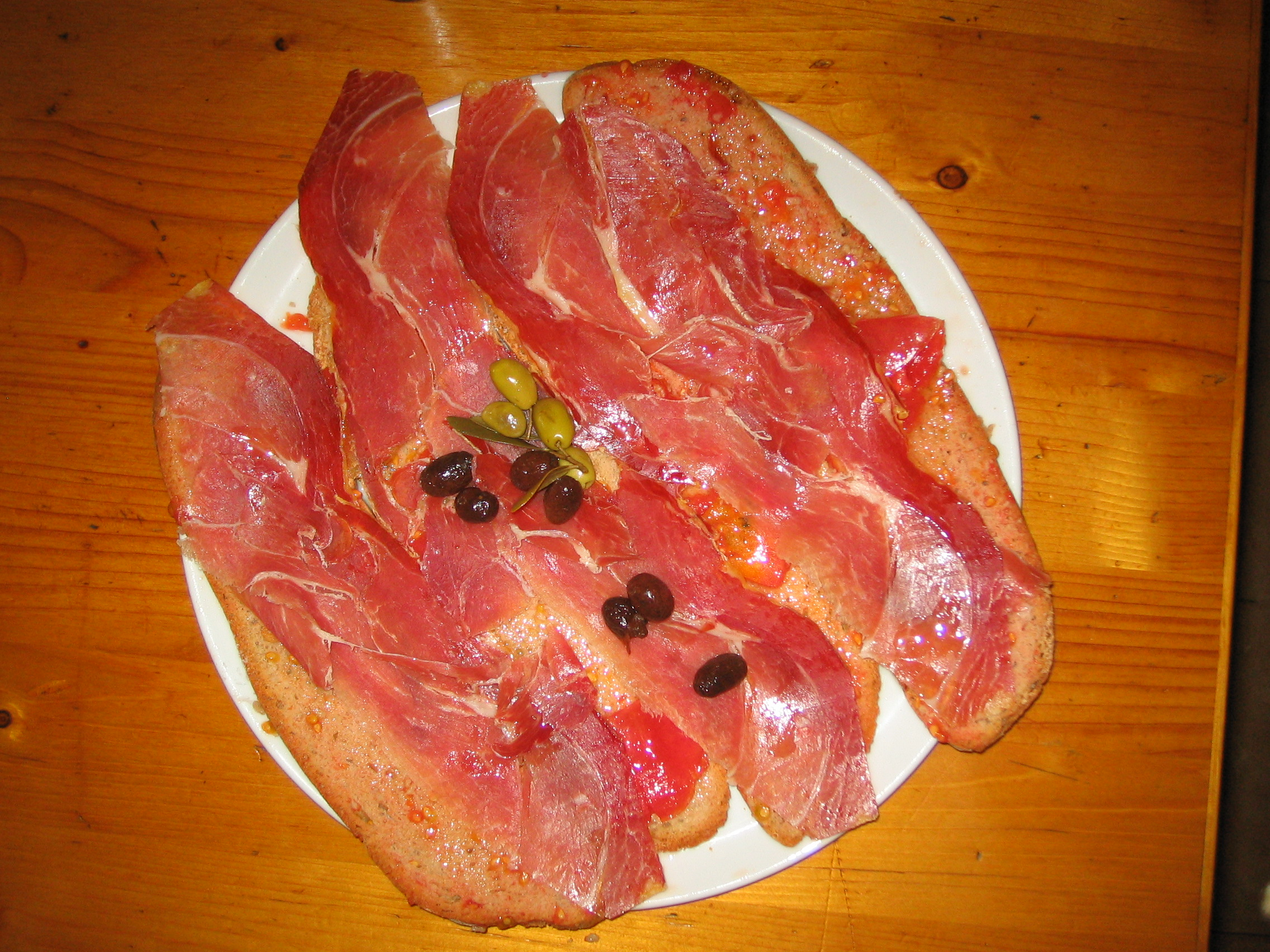 A tipical spanish meal called Pa amb oli (in catalonian language) which means bread with oil.